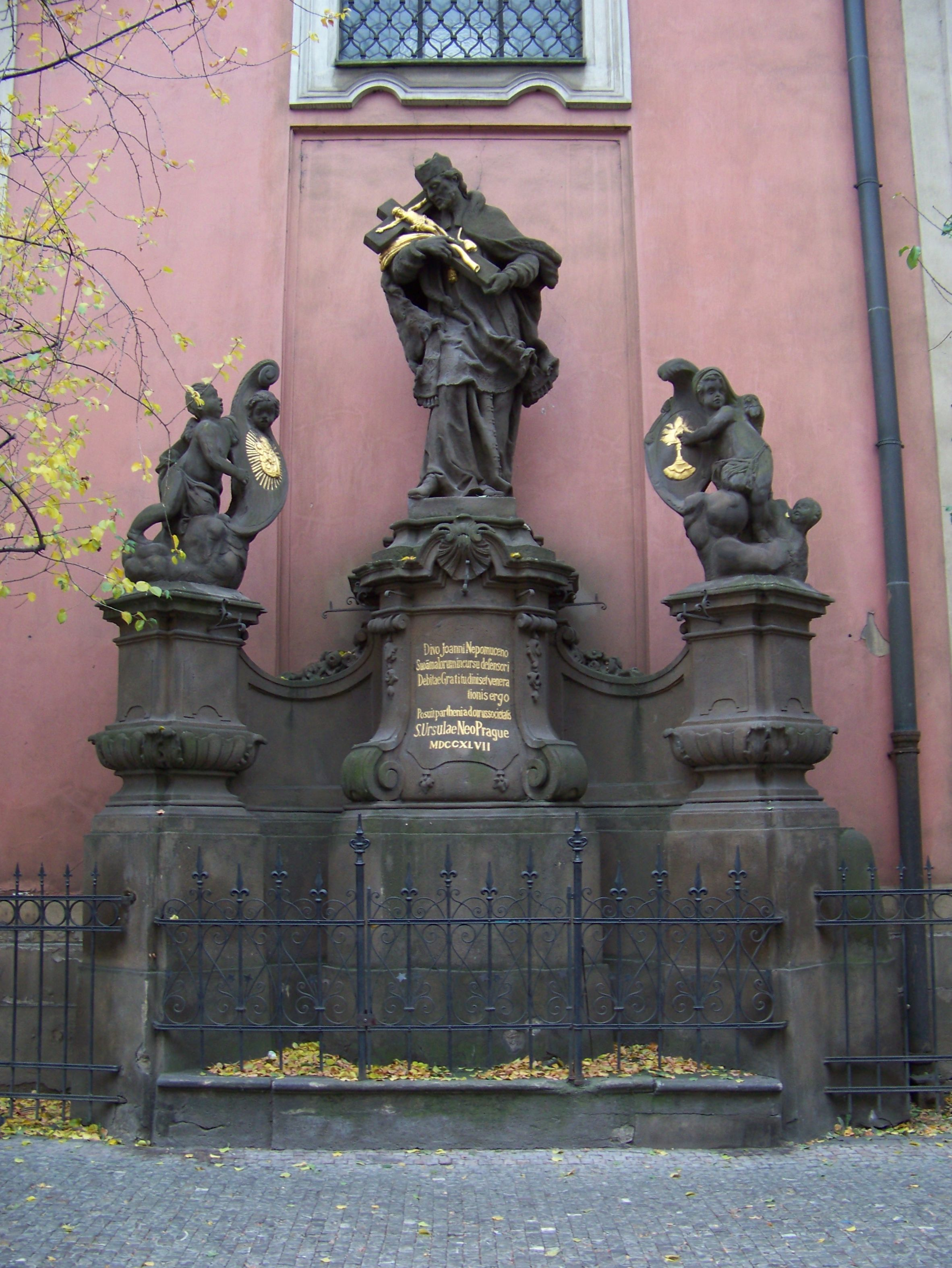 Prague-New Town, the Czech Republic. Národní street, statue of Saint John of Nepomuk in front of Saint Ursule Church.